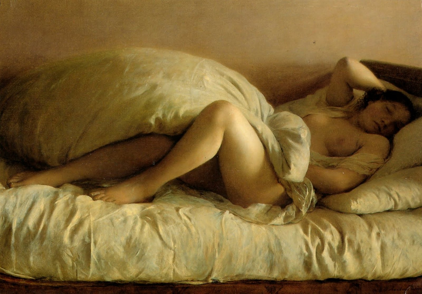 Slumbering Woman (The first wife of the artist)label QS:Len,"Slumbering Woman (The first wife of the artist)" label QS:Lde,"Schlummernde Frau (Die erste Gemahlin des Künstlers)" label QS:Lfr,"Femme endormie (La première épouse de l'artiste)"